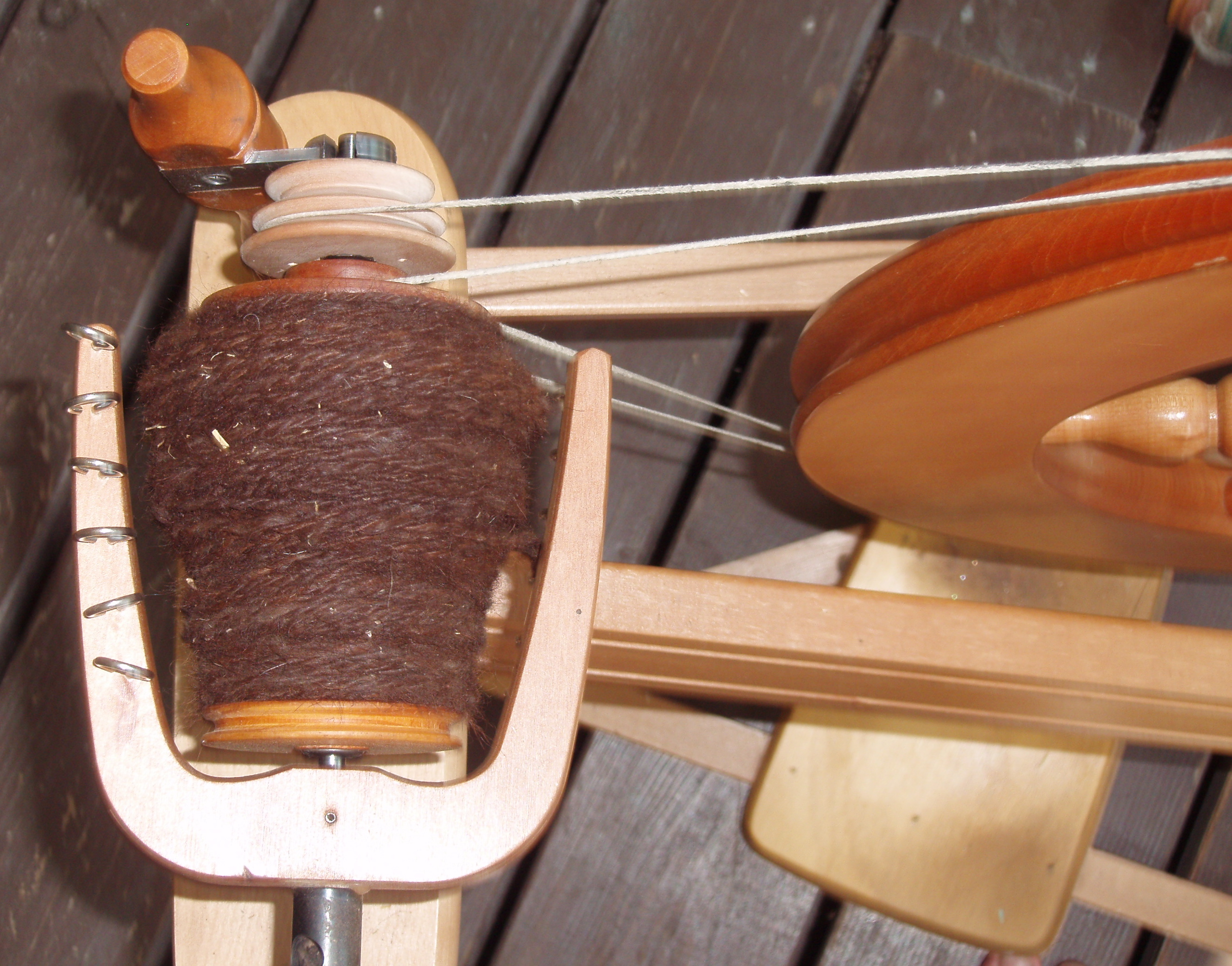 A picture of the flyer-bobbin system on a double drive spinning wheel